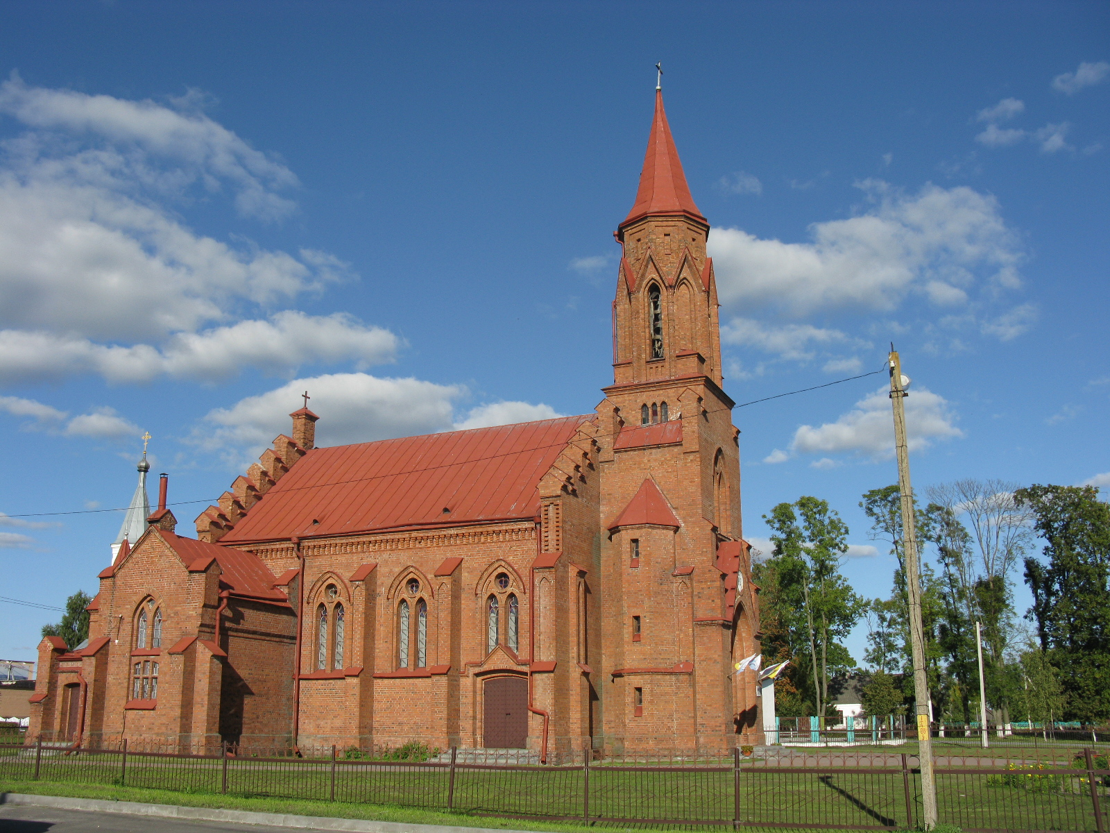 Church of Saints Apostles Peter and Paul. Lahishin, Belarus.